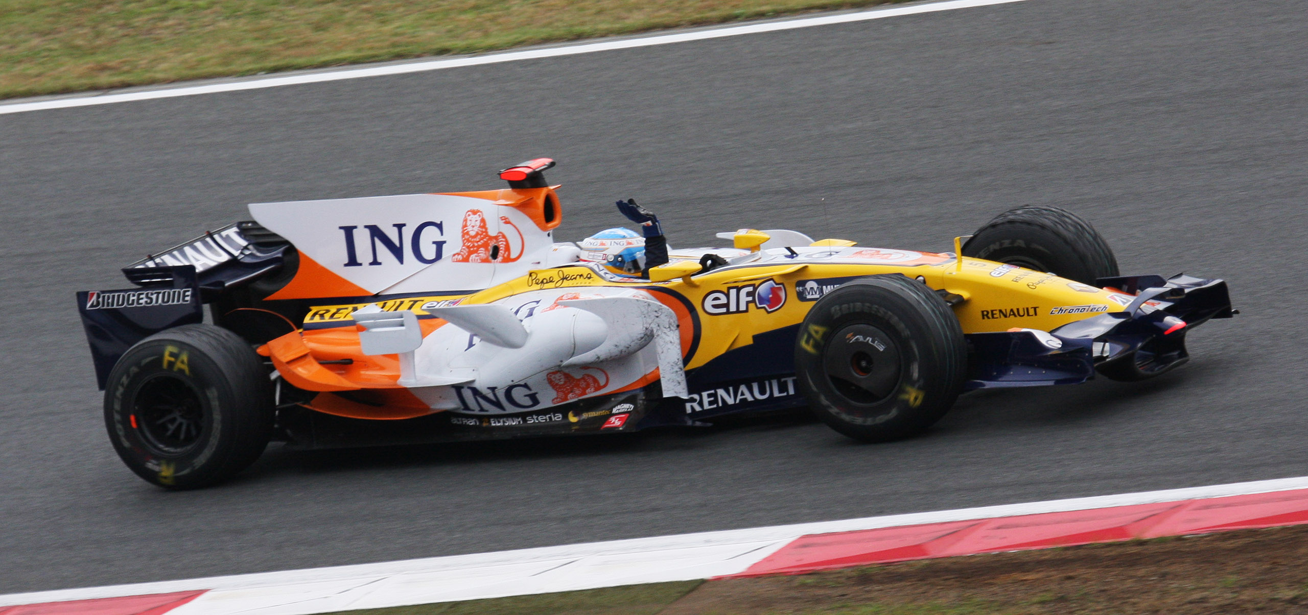 Formula One 2008 Rd.16 Japanese GP: Fernando Alonso (Renault) won the race.